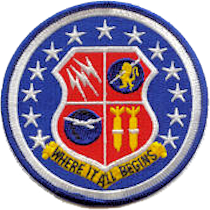 Emblem of the 329th Combat Crew Training Squadron (SAC)